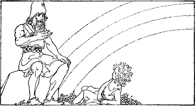 An illustration by Willy Pogany from a chapter from Children of Odin entitled "Heimdall and little Hnossa - how all things came to be". No title otherwise given for the work. Heimdallr tells a young Hnoss, daughter of the goddess Freyja, with the bridge Bifröst in the background.